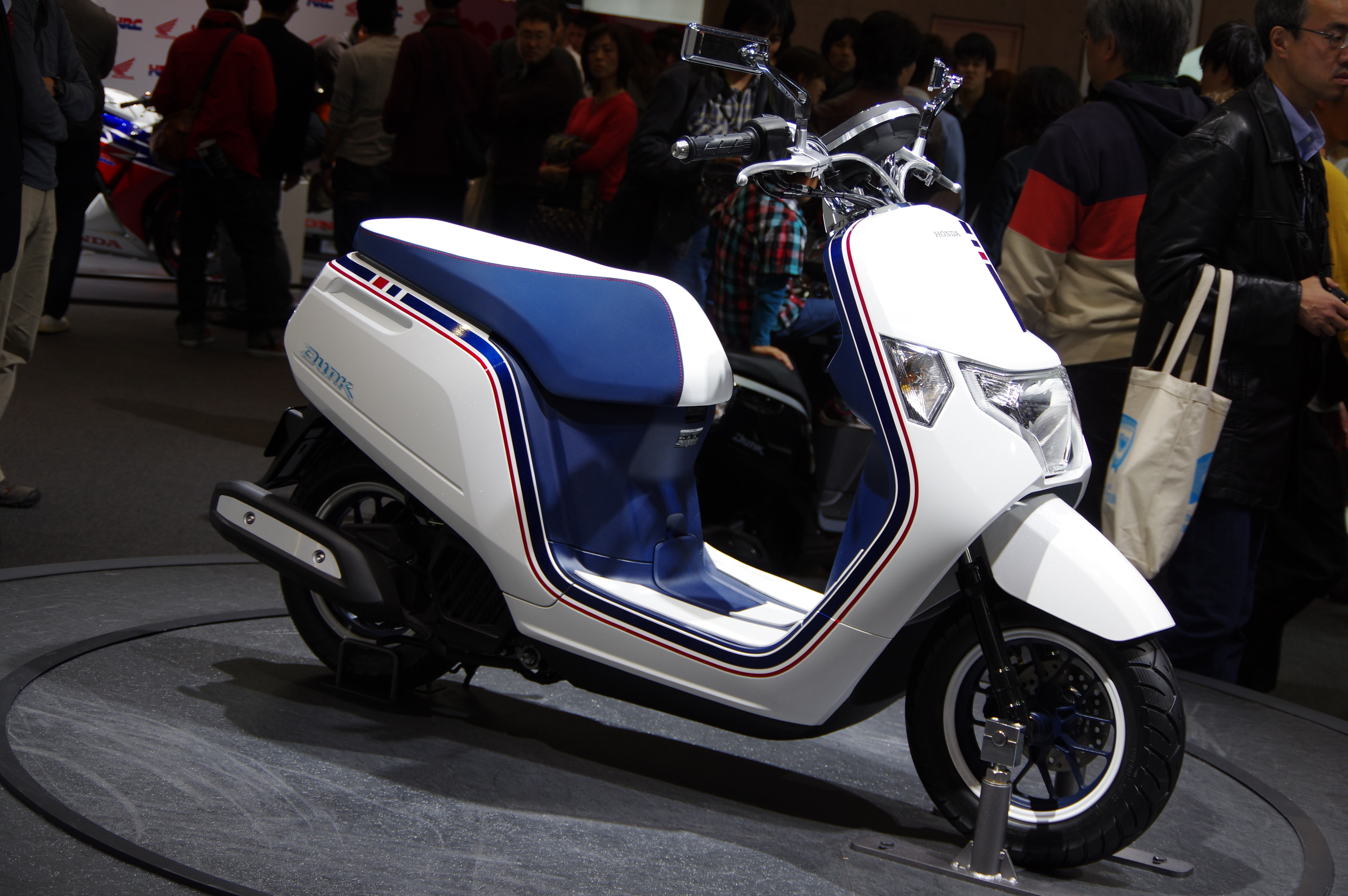 The 43rd Tokyo Motor Show 2013_PENTAX K-3_156